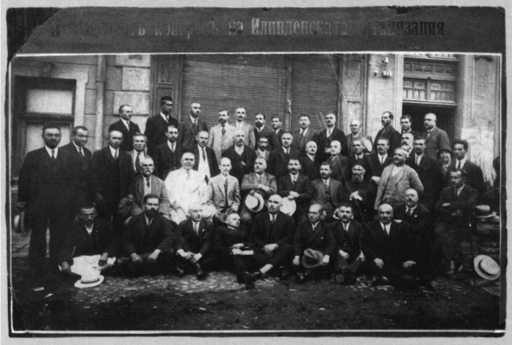 Ilinden organisation activists, among them Slavcho Abazov (4 on second roll from right to left)